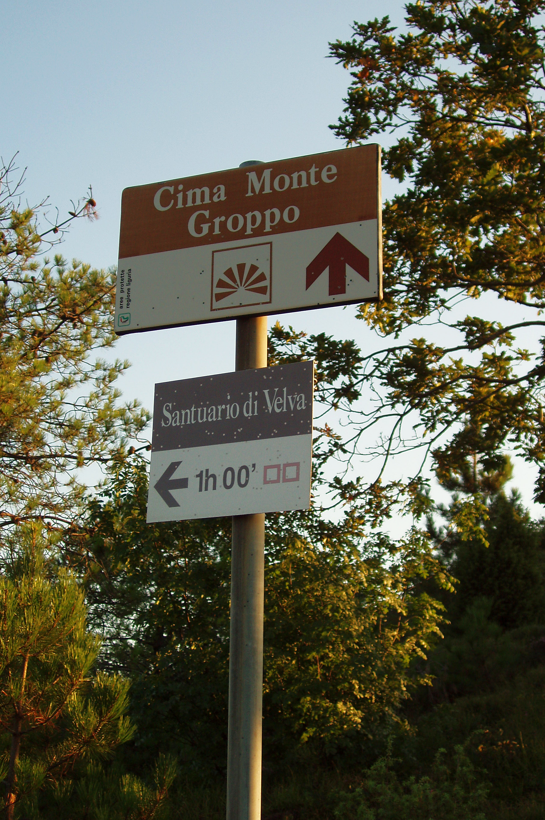 Monte Groppi (Ligurian Apennnine) hiking panel reporting Monte Groppo